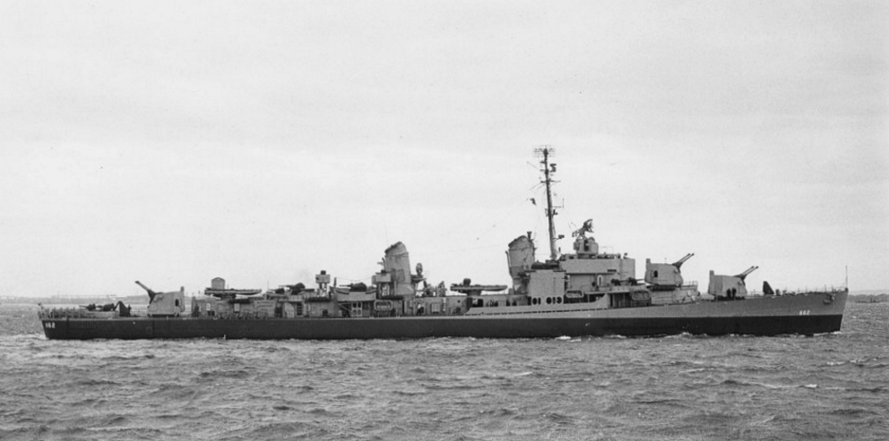 The U.S. Navy destroyer USS Vogelgesang (DD-862) off Bethlehem Steel, Staten Island, New York (USA), on 27 April 1945.